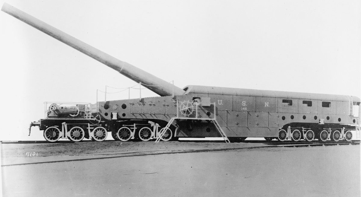 Photograph of US 14 inch 50 caliber railway gun on Mark I gun car.